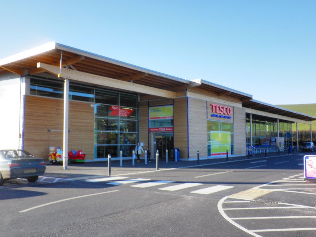 New Tesco store, Crediton